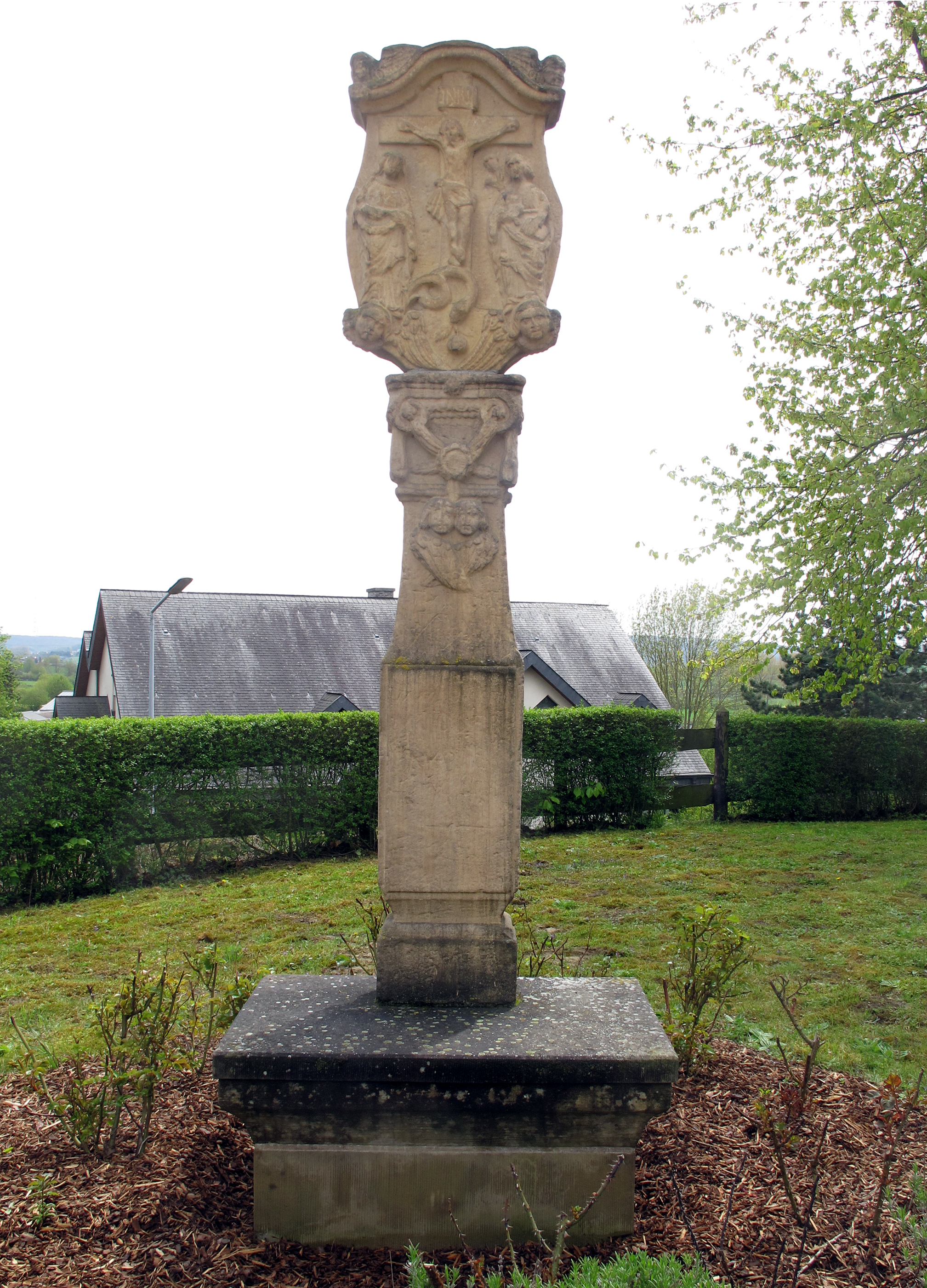 Wayside cross near the chappel in Bergem, Luxembourg